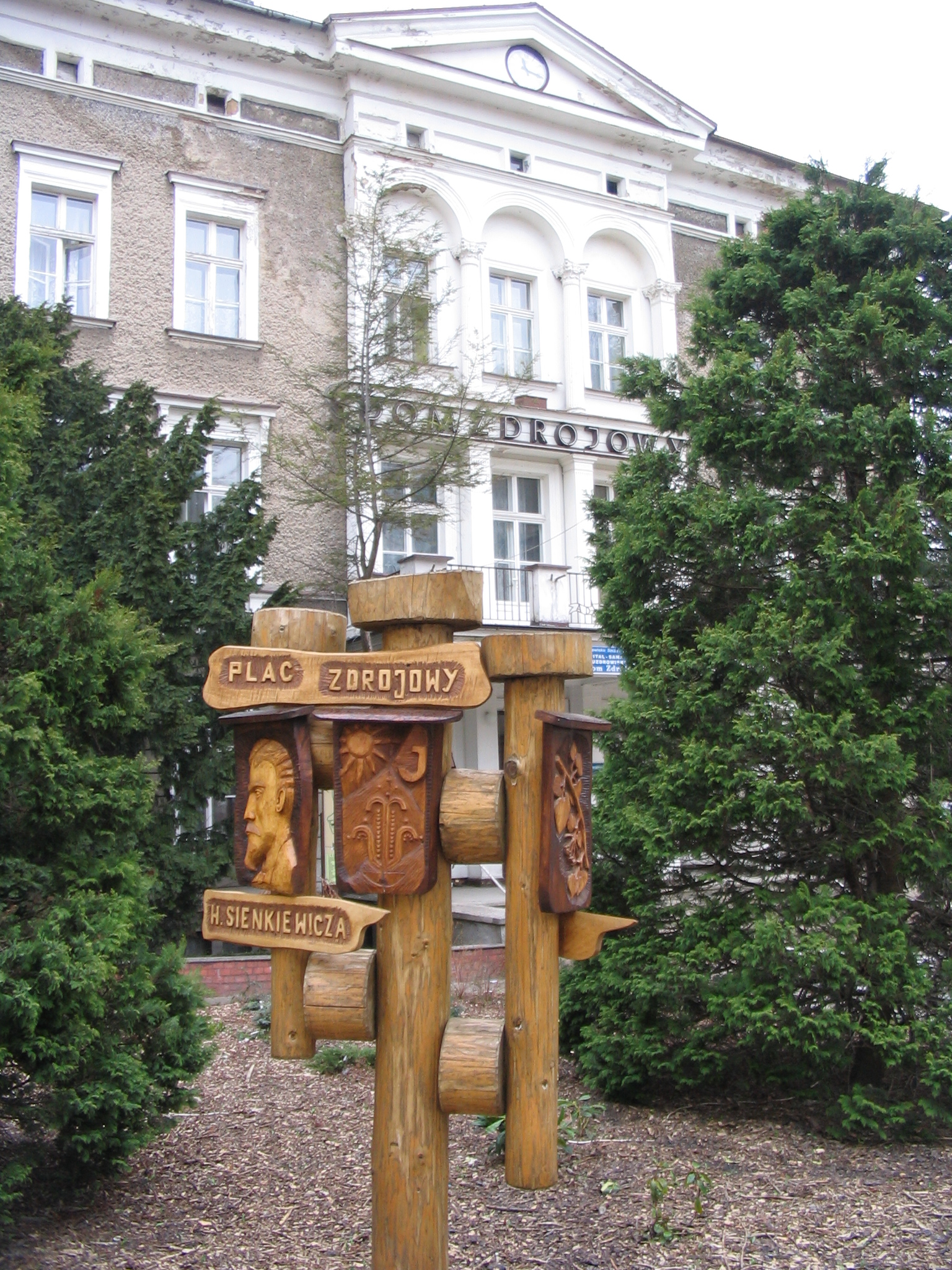 Spa house in Jedlina-Zdrój, Poland